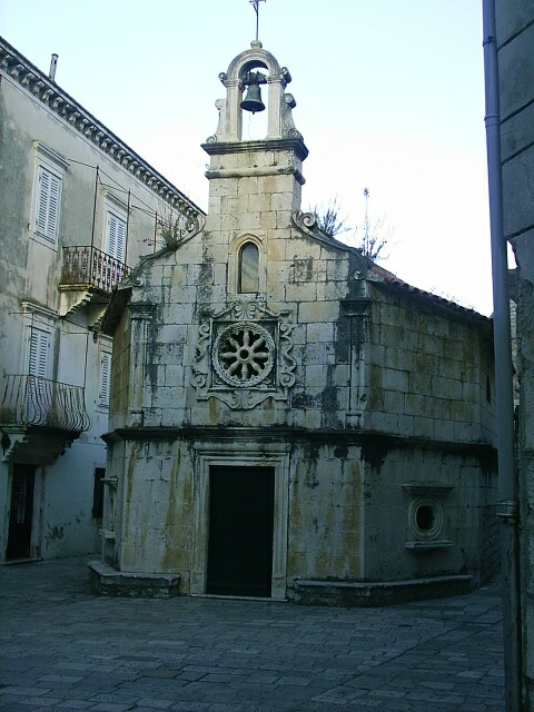 Town of Jelsa at the Hvar island, Croatia